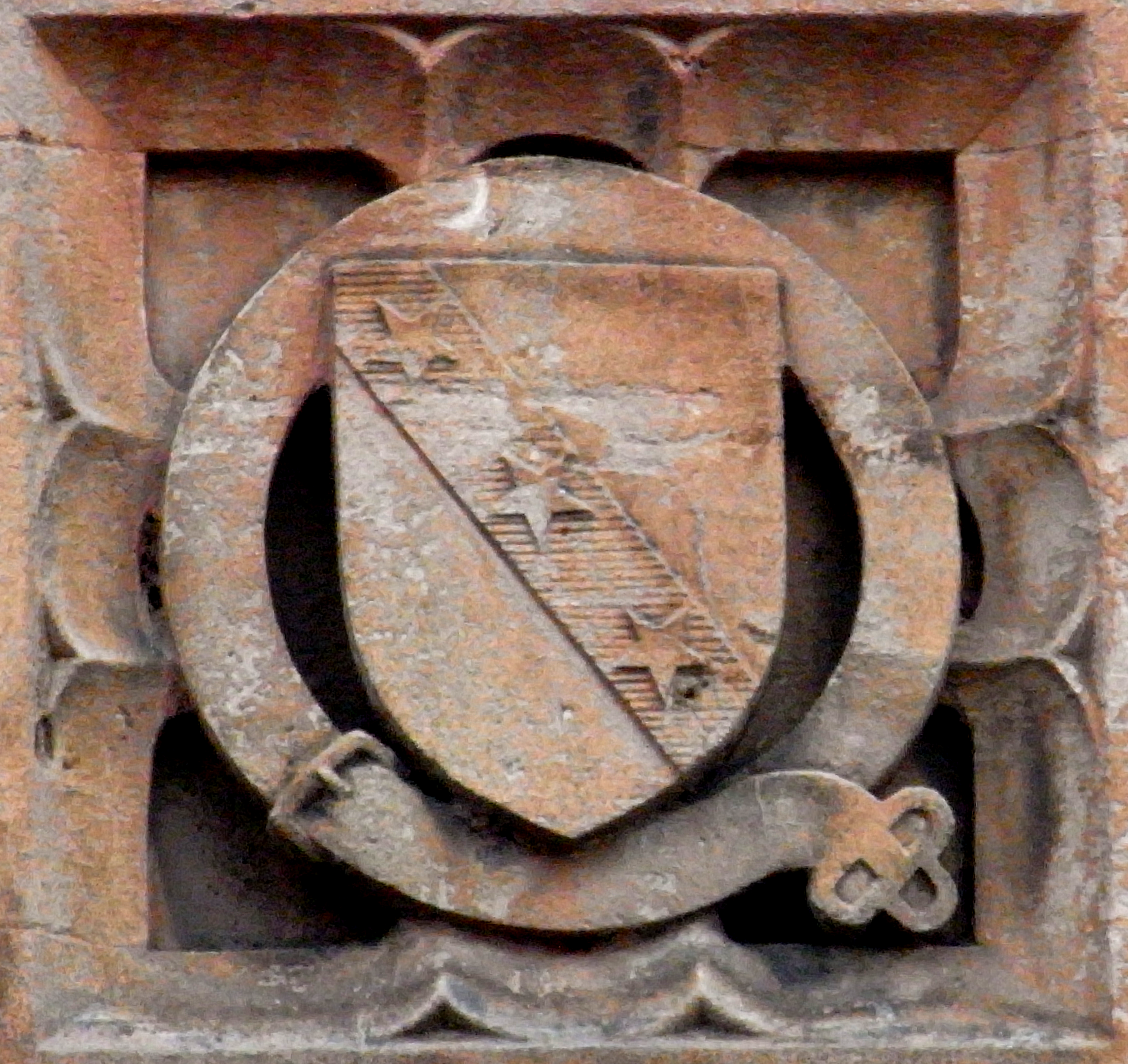 Arms of William Wynard: Argent, on a bend azure three mullets of the first (per Pole, Sir William (d.1635), Collections Towards a Description of the County of Devon, Sir John-William de la Pole (ed.), London, 1791, p.508,"Winard of Woonford" ), Recorder of Exeter (1404-1442), whose house was in South Street on the site of the present White Hart Inn, who founded Wynard's Almshouse or Hospital in Magdalen Street, Exeter (still standing), on 20 January 1436 together with the attached chapel of the Holy Trinity and Maison Dieu